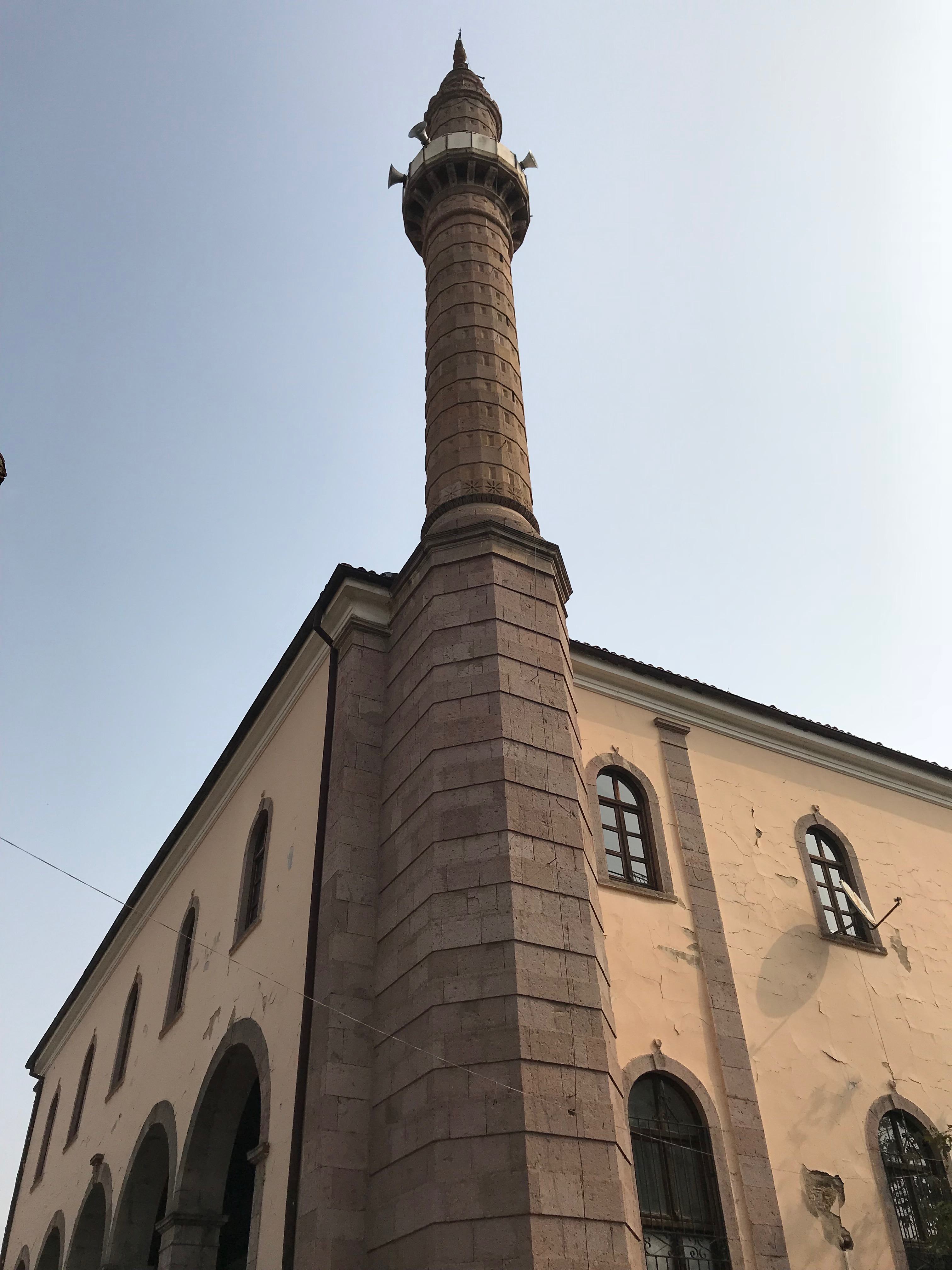 Hacı Abdi Ağa Mosque in Ödemiş, Turkey.